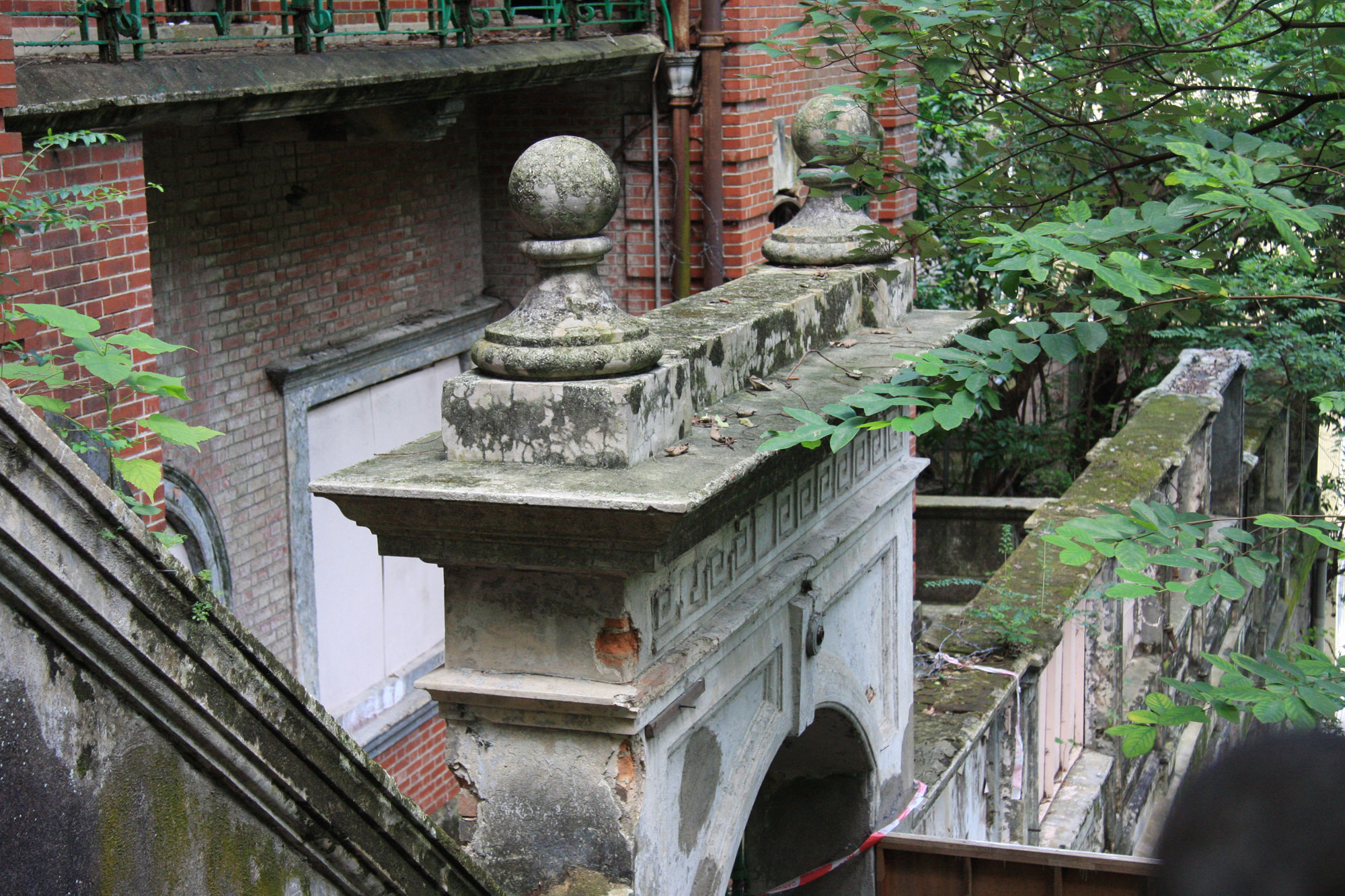 Nam Koo Terrace Architecture. Arch and outer property wall.